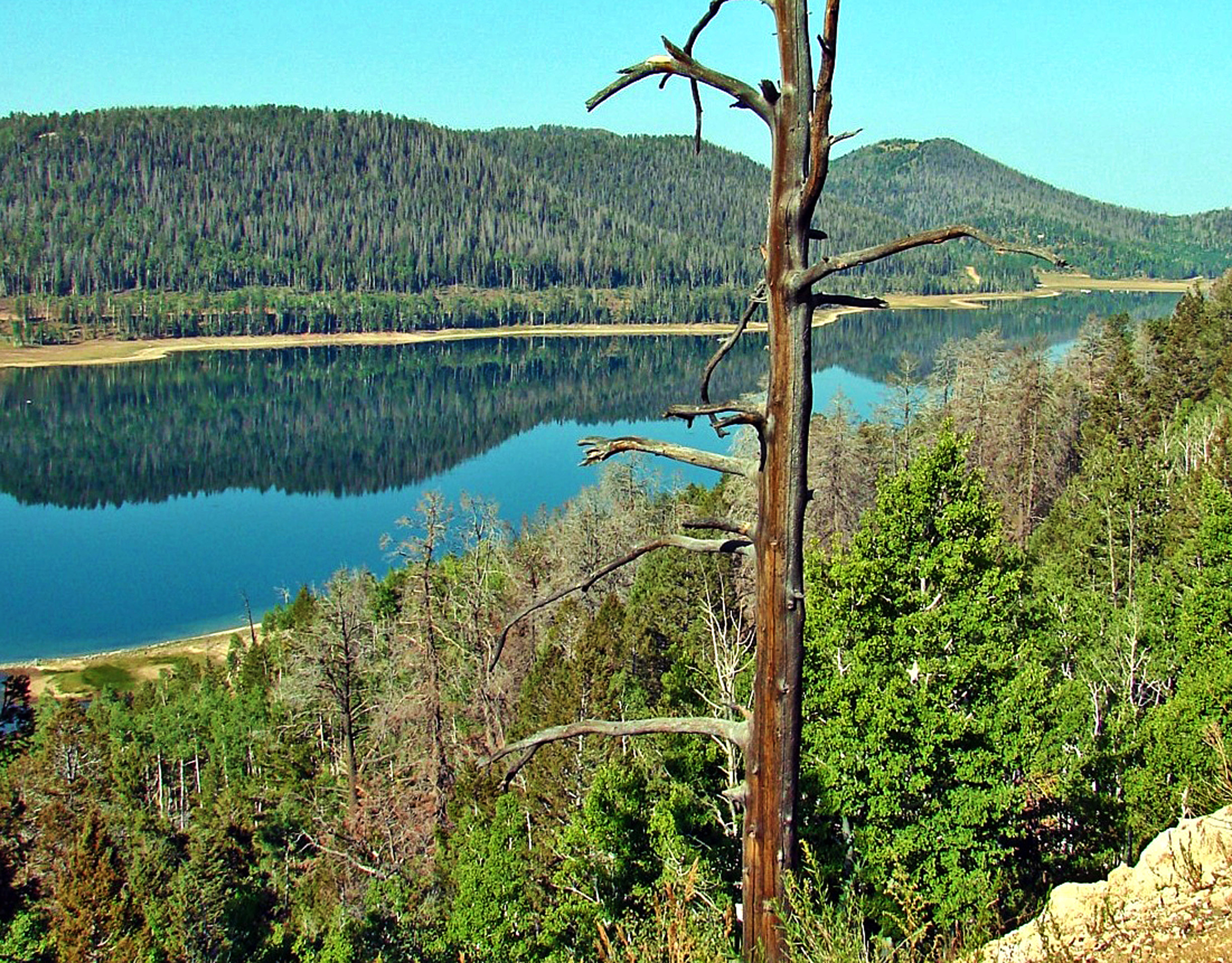 (1 in a multiple picture album) This lake is high in the hills east of Cedar City, UT, near the Cedar Breaks National Monument. I liked the reflections on the water and the old, dead tree standing guard over the peaceful scene.